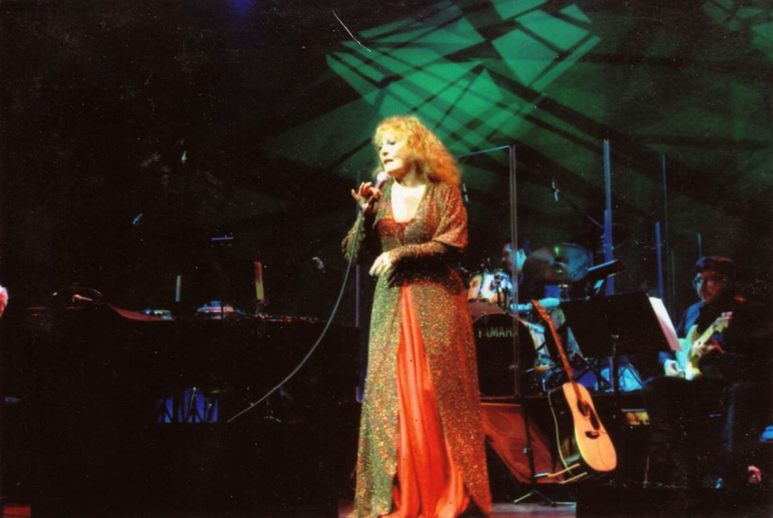 Petula Clark in a 2008 performance in Connecticut, United States